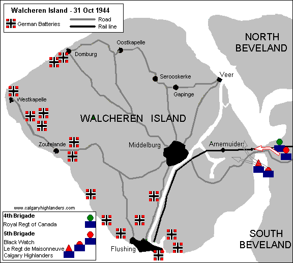 map image